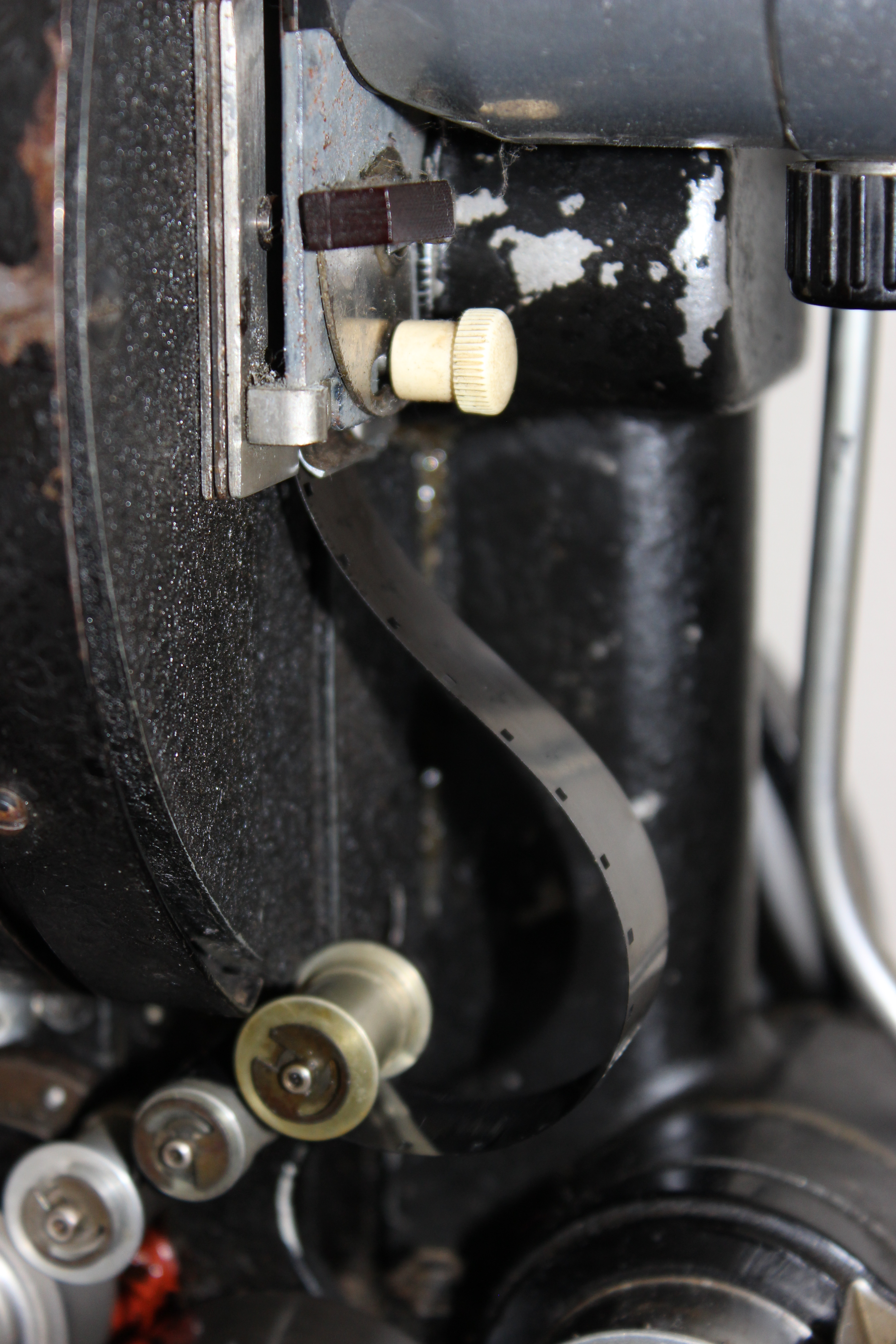 Latham Loop